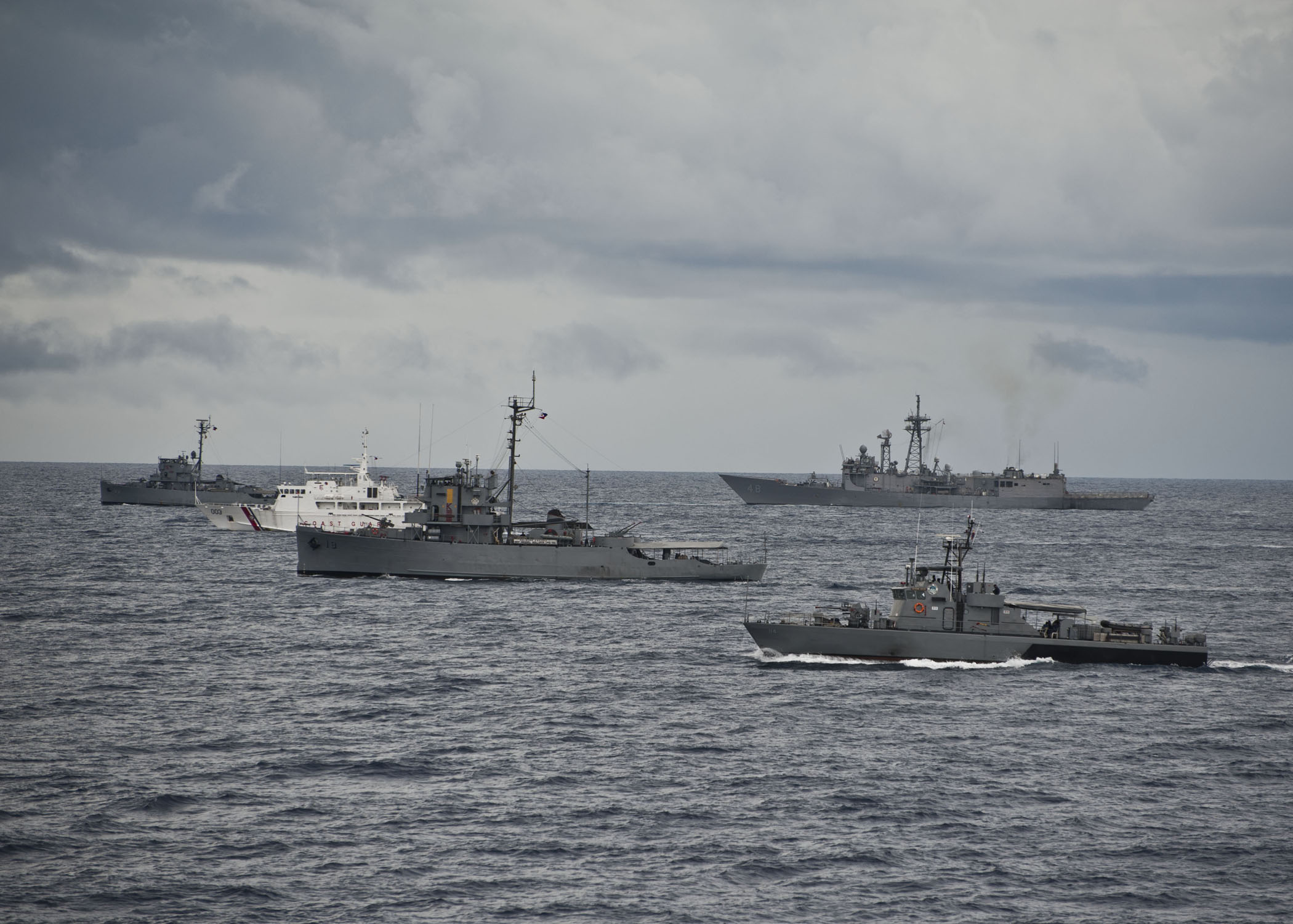 CELEBES SEA (July 8, 2012) The Philippine navy coastal patrol craft BRP Salvador Abcede (PG 114), the corvette BRP Miguel Malvar (PS 19), the Philippine coast guard patrol boat PCG Pampanga (SARV 003), BRP IloIlo (PS 32) the U.S. Navy guided-missile frigate USS Vandegrift (FFG 48) and the U.S. Coast Guard cutter USCGC Waesche (WMSL 751) are underway in the Celebes Sea during the conclusion of the at-sea phase of Cooperation Afloat Readiness and Training (CARAT) Philippines 2012. CARAT is a series of bilateral military exercises between the U.S. Navy and the armed forces of Bangladesh, Brunei, Cambodia, Indonesia, Malaysia, the Philippines, Singapore, and Thailand. Timor Leste joins the exercise for the first time in 2012. (U.S. Navy photo by Mass Communication Specialist 3rd Class Gregory A. Harden II/Released) 120708-N-HI414-081 Join the conversation navylive.dodlive.mil